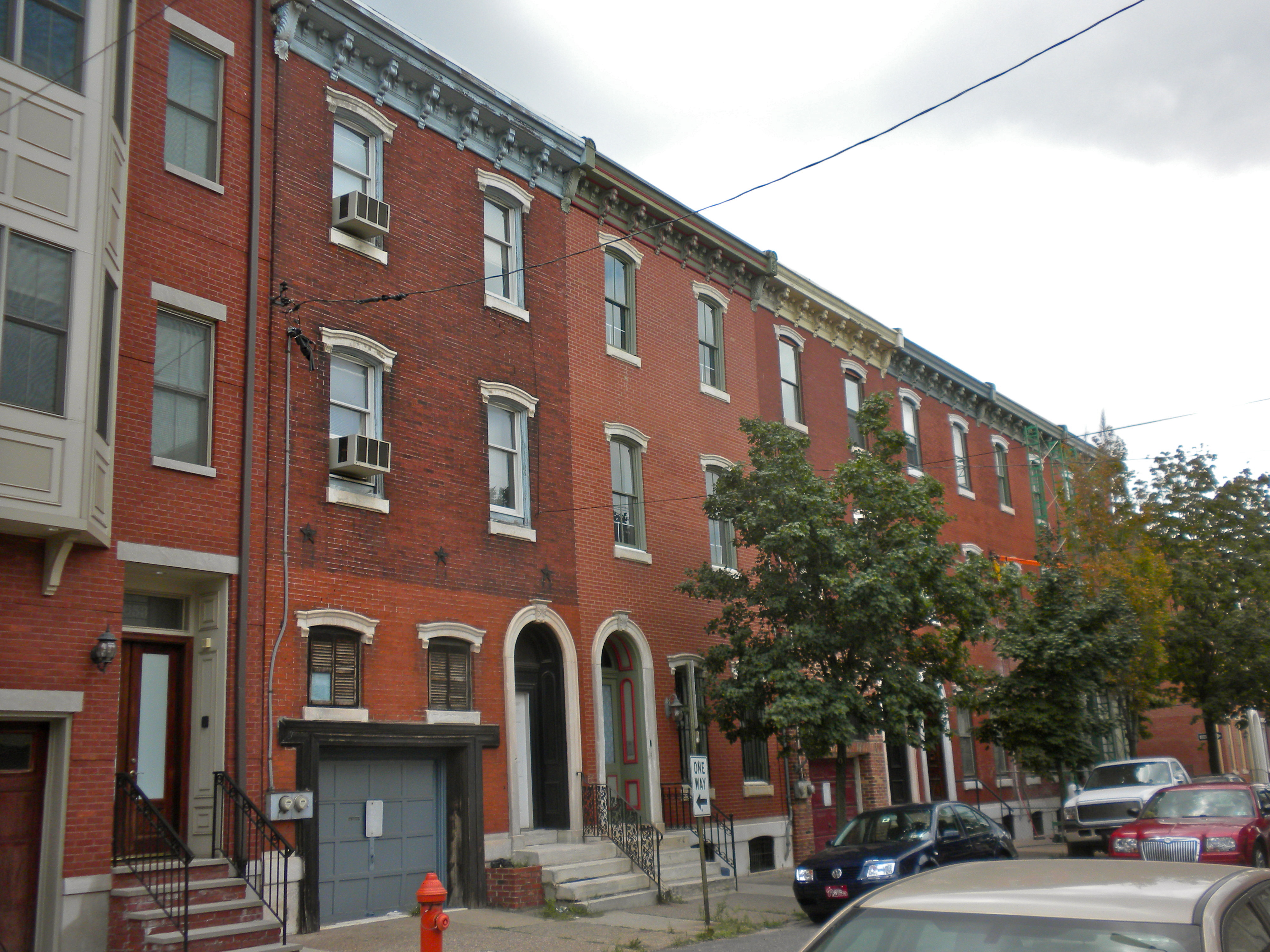 Houses in Fairmount Avenue Historic District in Philadelphia, on the NRHP since February 20, 2002. The Historic District includes Fairmount Ave. and Melon, North, 15th, 16th, and 17th Sts. These particular houses are on 16th south of Fairmount (east side of the street, just south of the big Baptist Church). In the Spring Garden neighborhood of North Philly.